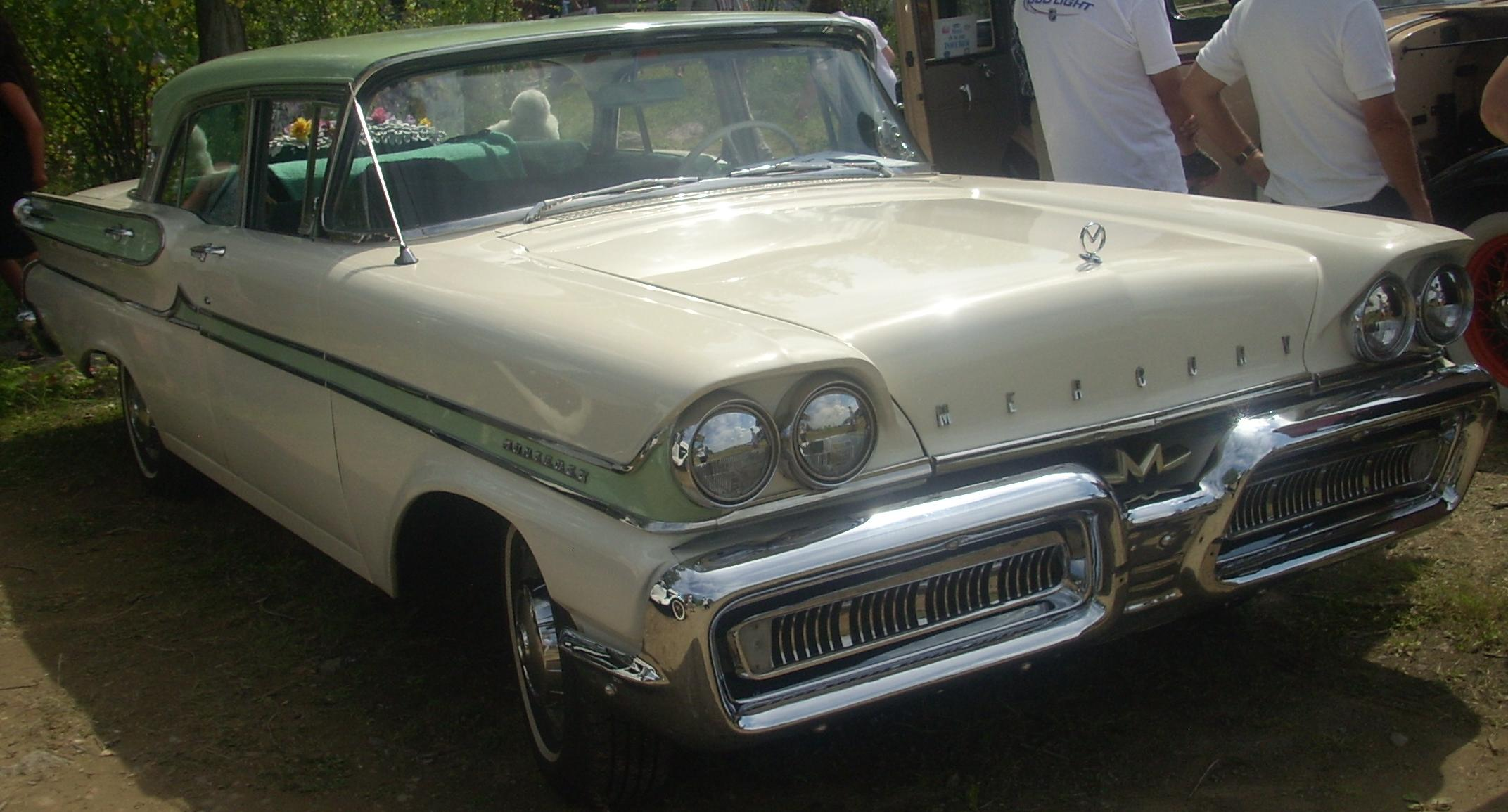 1958 Mercury Monterey photographed in Laval, Quebec, Canada at Auto classique Laval 2010.